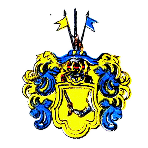 The coat of arms of the Swedish noble family Armfelt